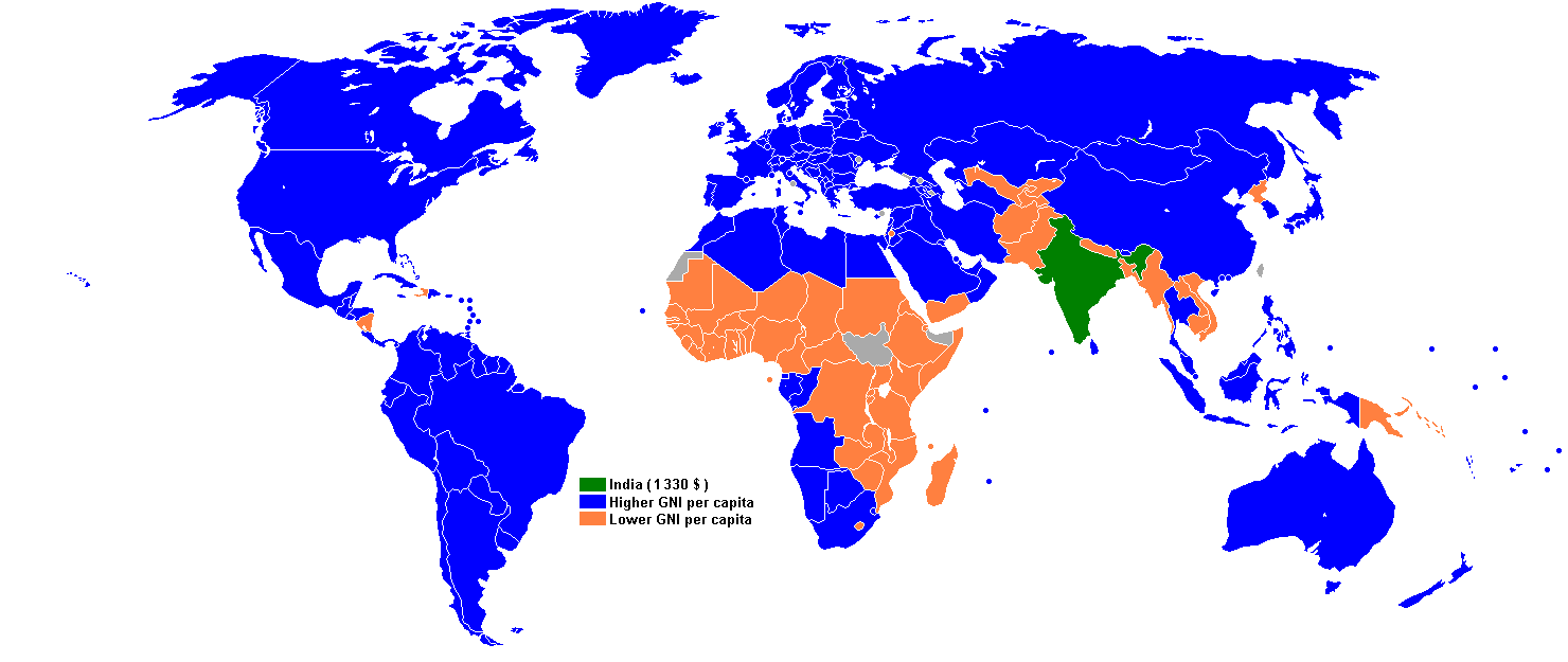 Map of countries by GNI per capita compared to India.